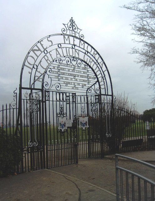 Jones Memorial Recreation Ground, Southend-on-Sea. The wording on this ornamental entrance reads: PRESENTED BY R.A.JONES IN MEMORY OF HIS LATE WIFE TO THE COUNTY BOROUGH OF SOUTHEND-ON-SEA FOR THE USE OF THE ELEMENTARY SCHOOLS OF THE TOWN A.D.1913. R.A.Jones himself was a prominent Southend jeweller. The recreation ground still comprises several playing fields.